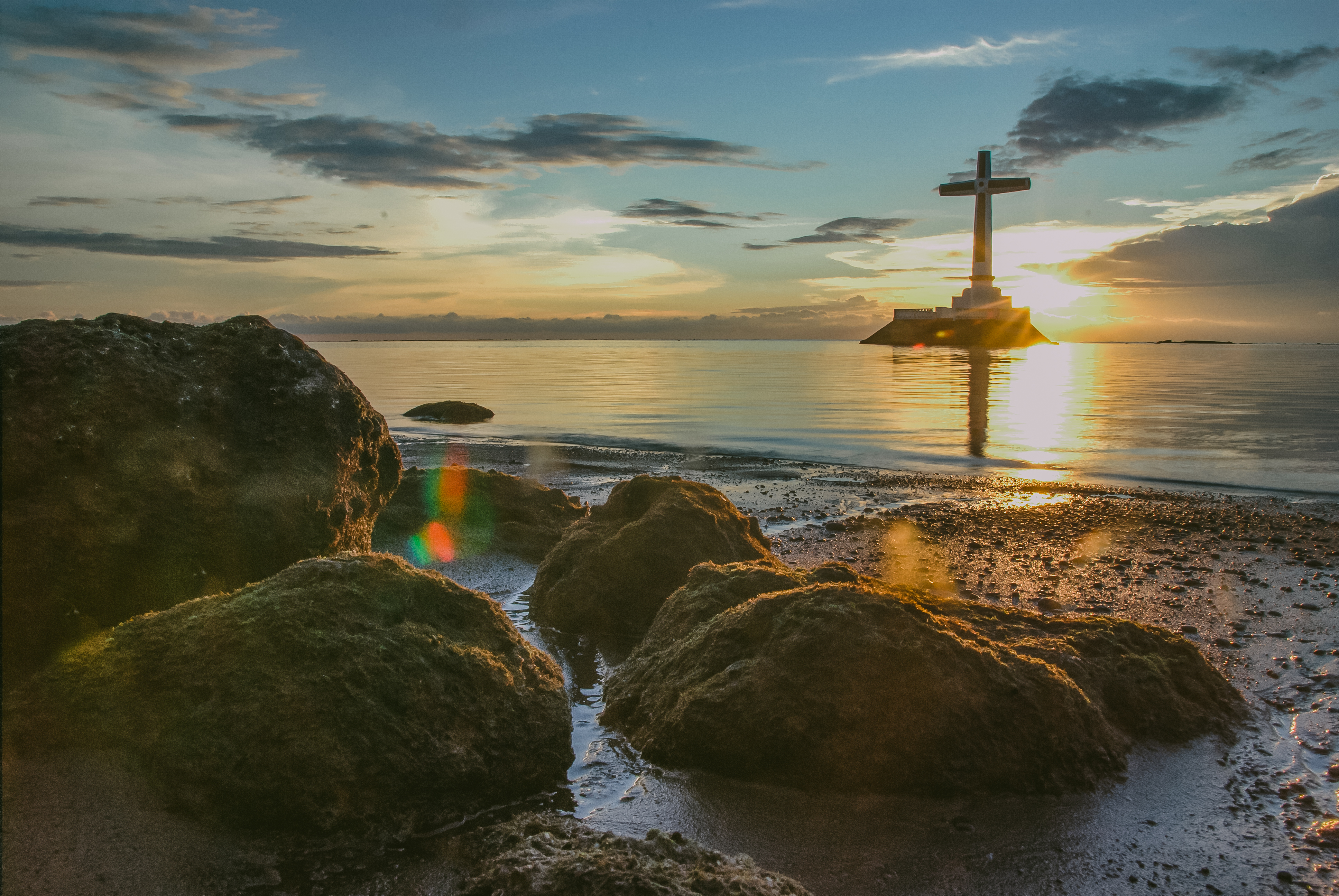 Sunken Cemetry in Camiguin Island